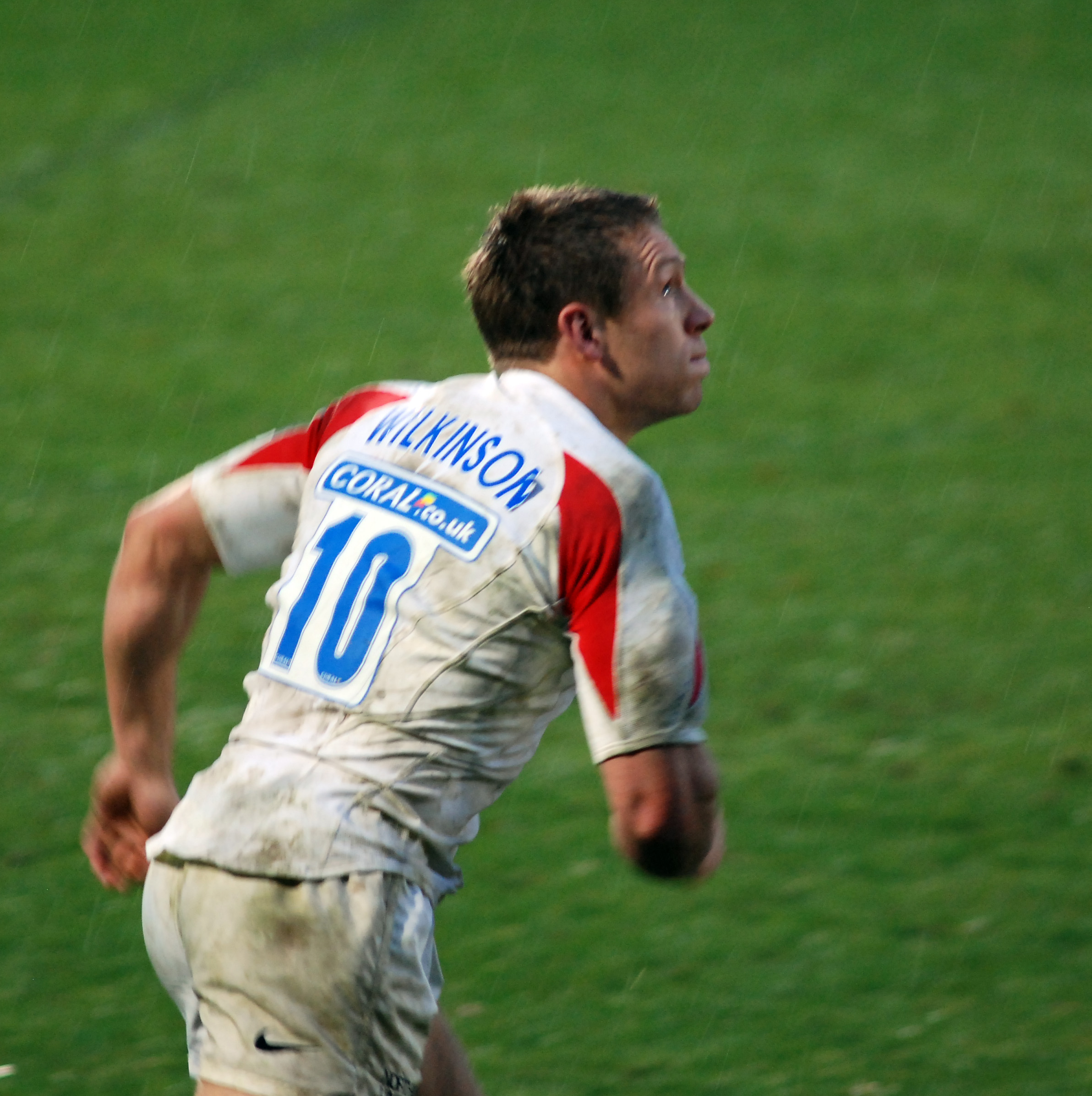 Jonny Wilkinson with English team Newcastle Falcons face to London Wasps in Edf Cup 2007-12-01. Jonny Wilkinson avec les Newcastle Falcons contre les London Wasps en coupe anglo-galloise.